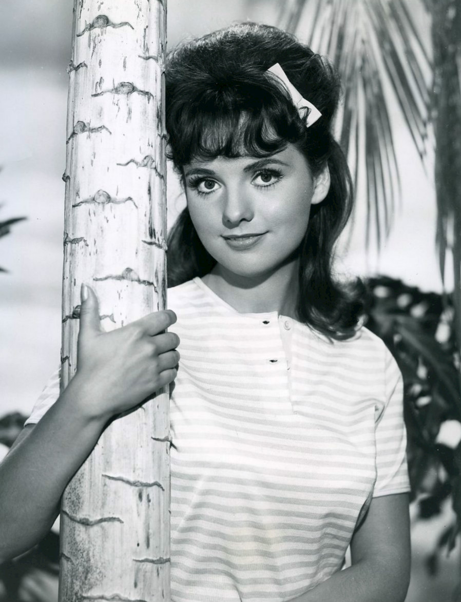 Photo of Dawn Wells as Mary Ann from the television program Gilligan's Island.